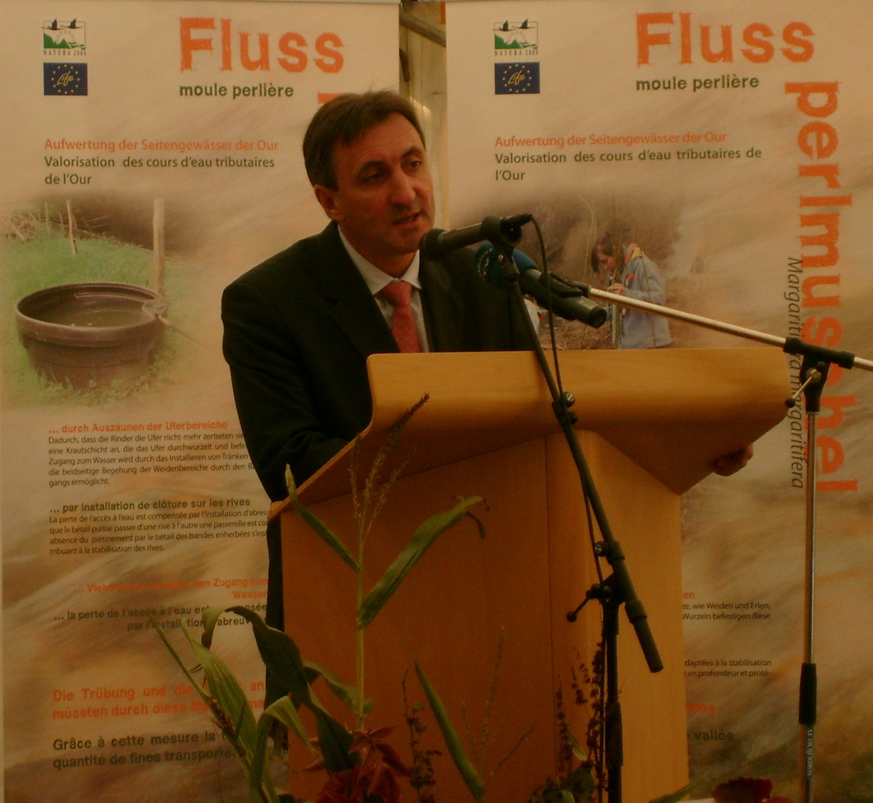 Jean-Marie Halsdorf, Minister of interior affairs, helding a speech at the inauguration of a freshwater pearl mussel breeding station at the mill of Kalborn, Luxembourg.